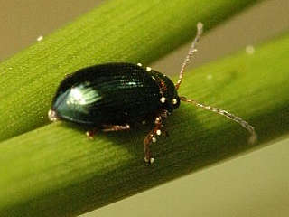 Picture taken in Commanster, Belgian High Ardennes (Crepidodera aurata)